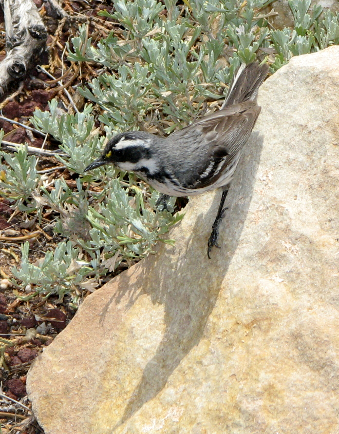 Black-throated Gray Warbler, Dendroica nigrescens, probably not an adult male